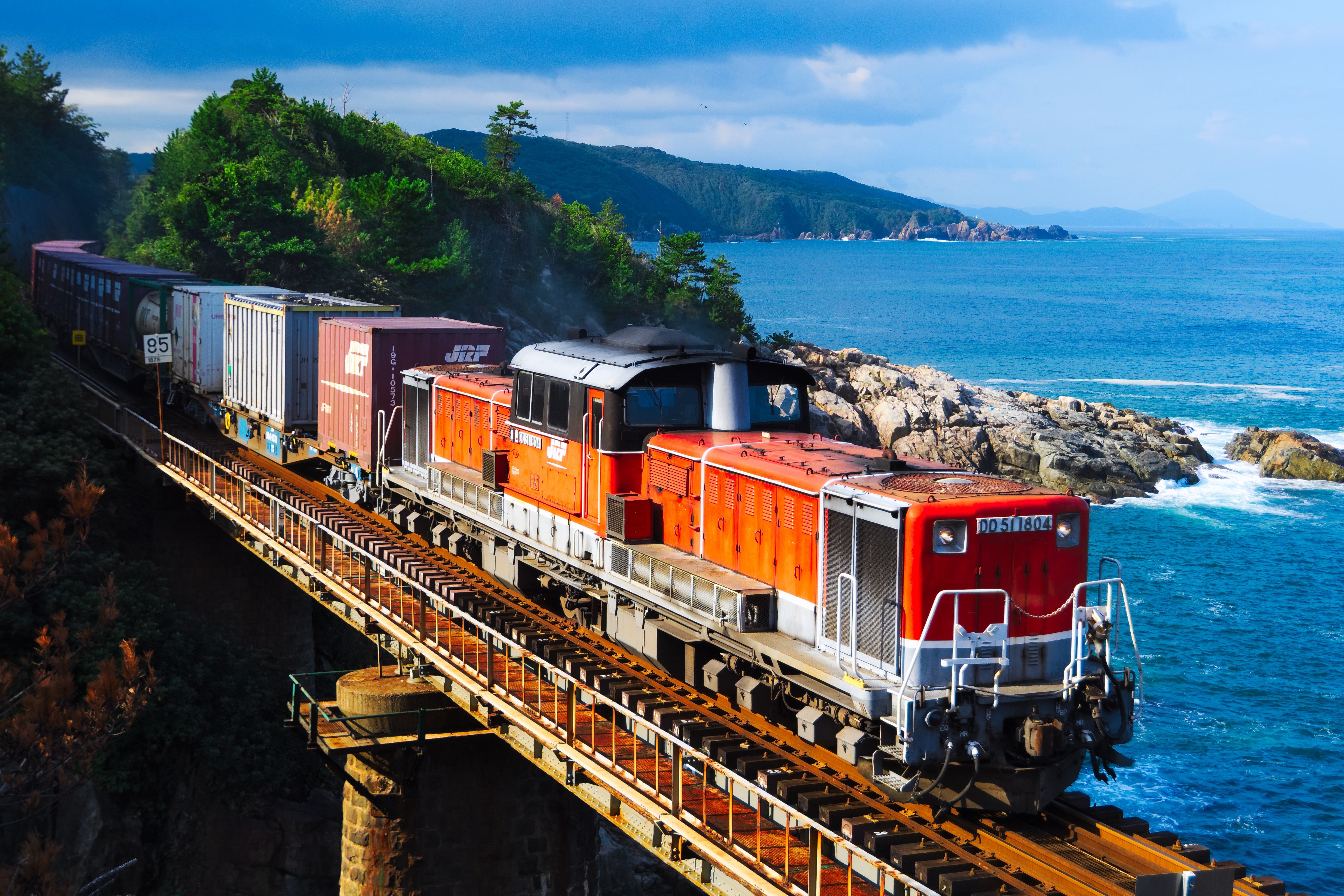 9080レ Sanin bypass operation